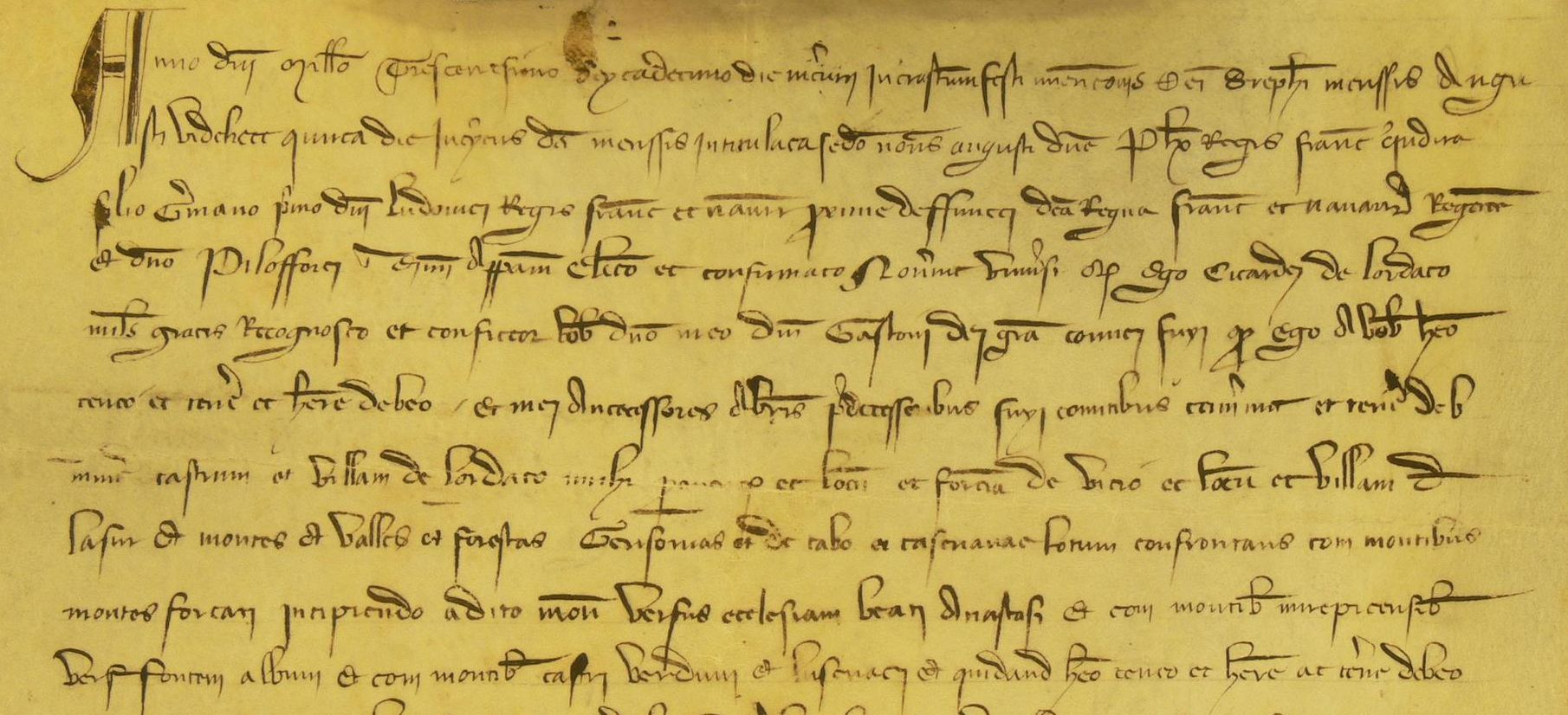 Extract of a chart from 1316 mentioning the mountain "tabo" and "ecclesiam beati anastasi". See above a transcription from the end of sixth line ".. teni de v(obis)..."